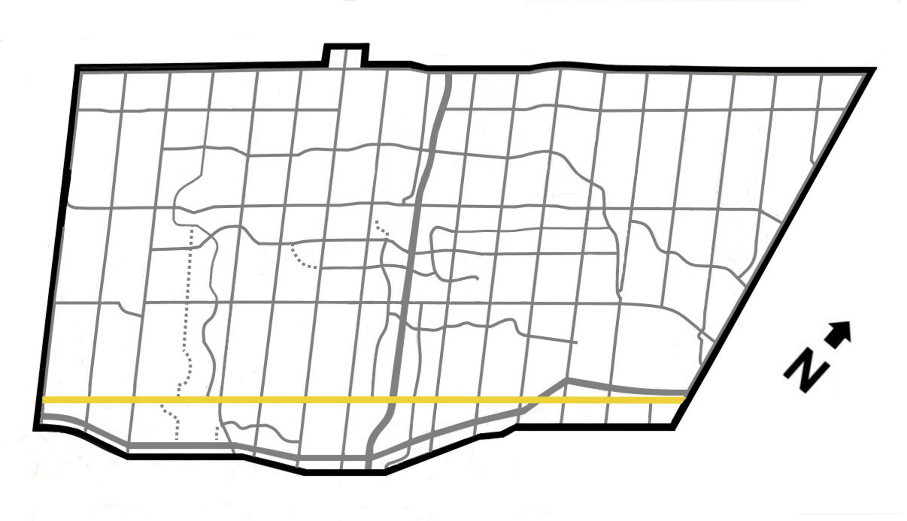 Steeles Avenue in Brampton, Ontario